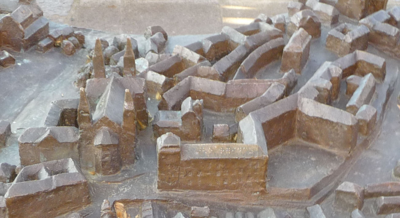 Bamberg, Germany